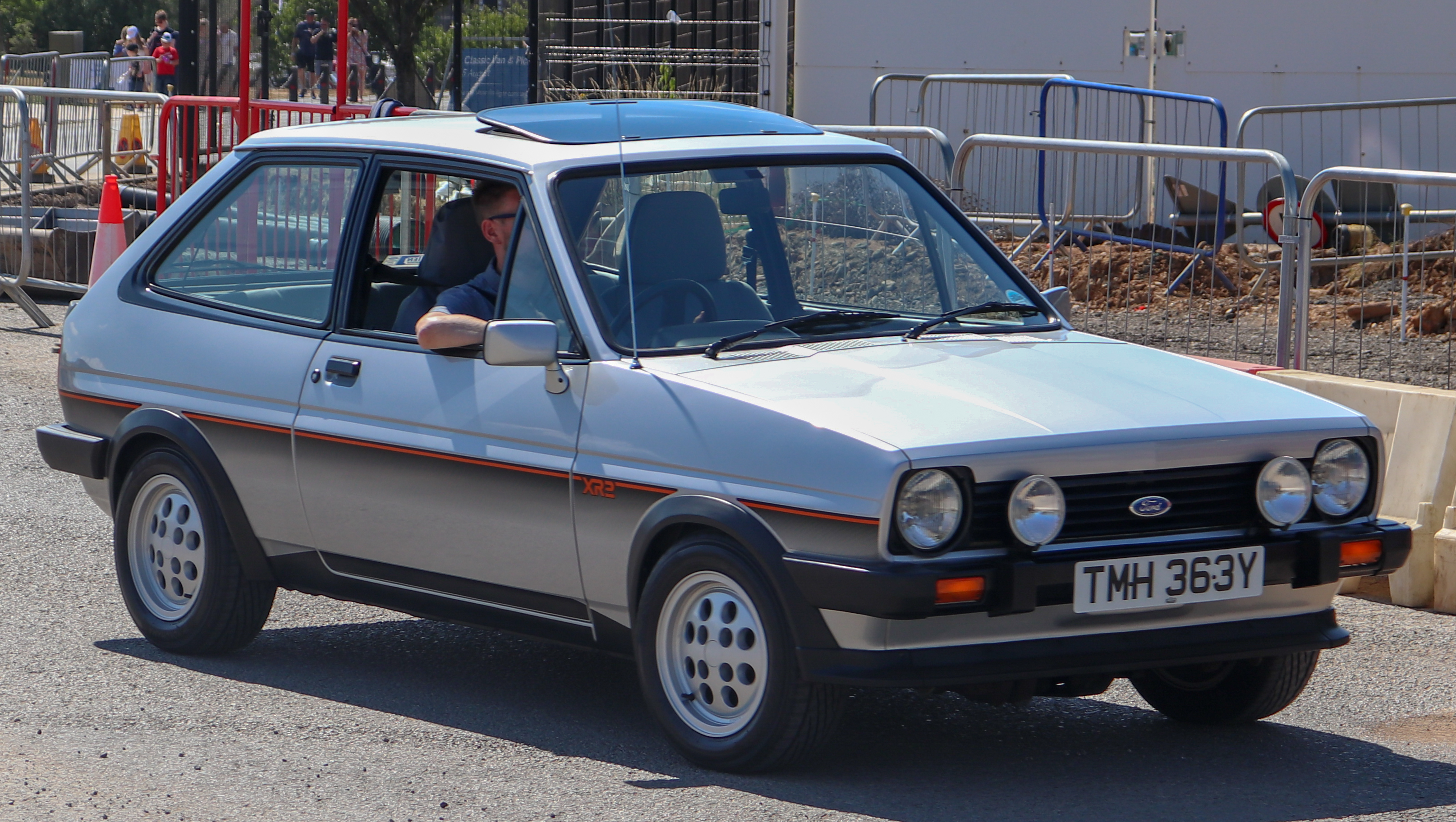 1983 Ford Fiesta XR2 1.6 Taken at the British Motor Museum Old Ford Rally 2018, Gaydon